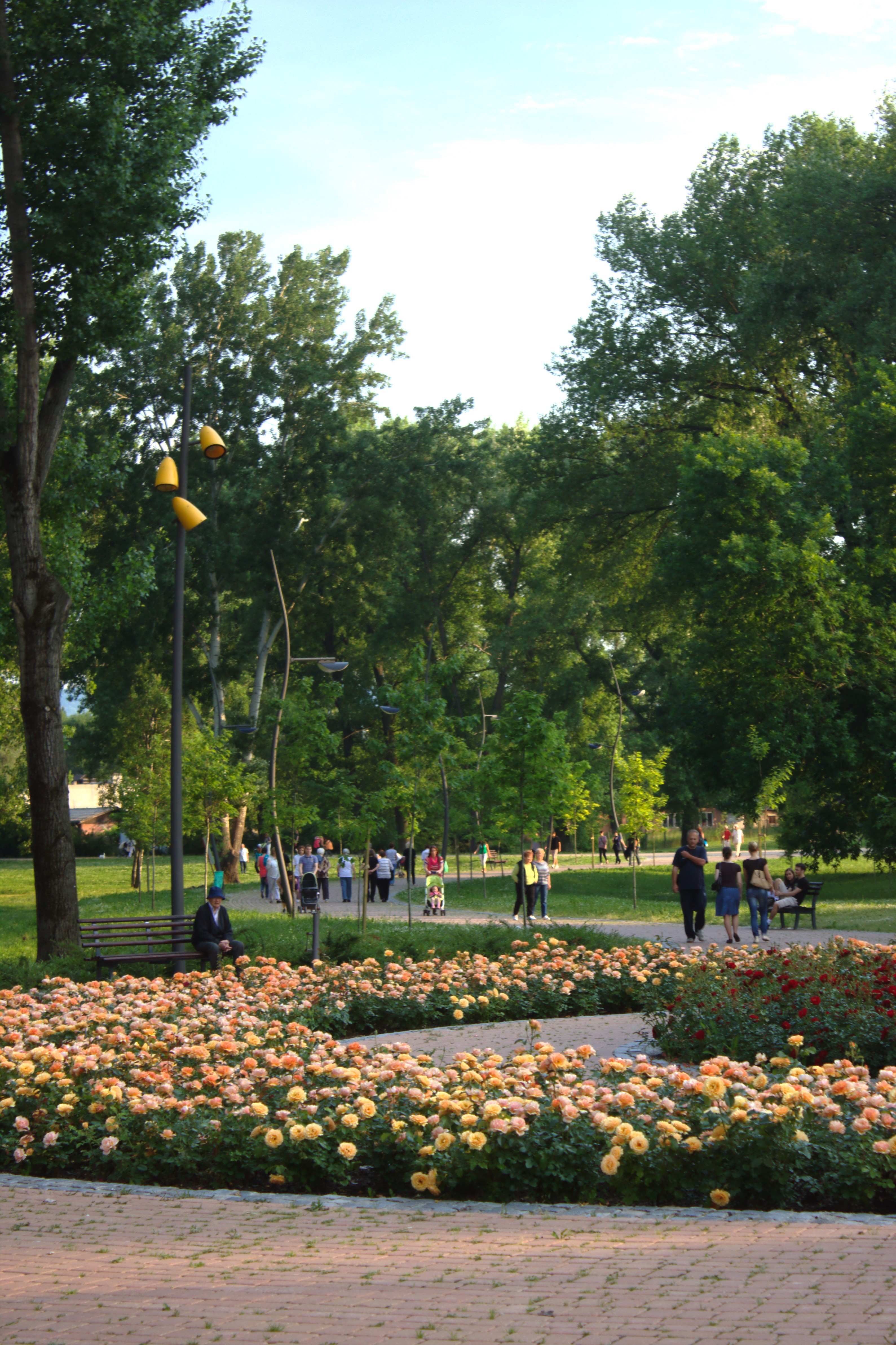 An evening in Limanski Park, Novi Sad, Serbia